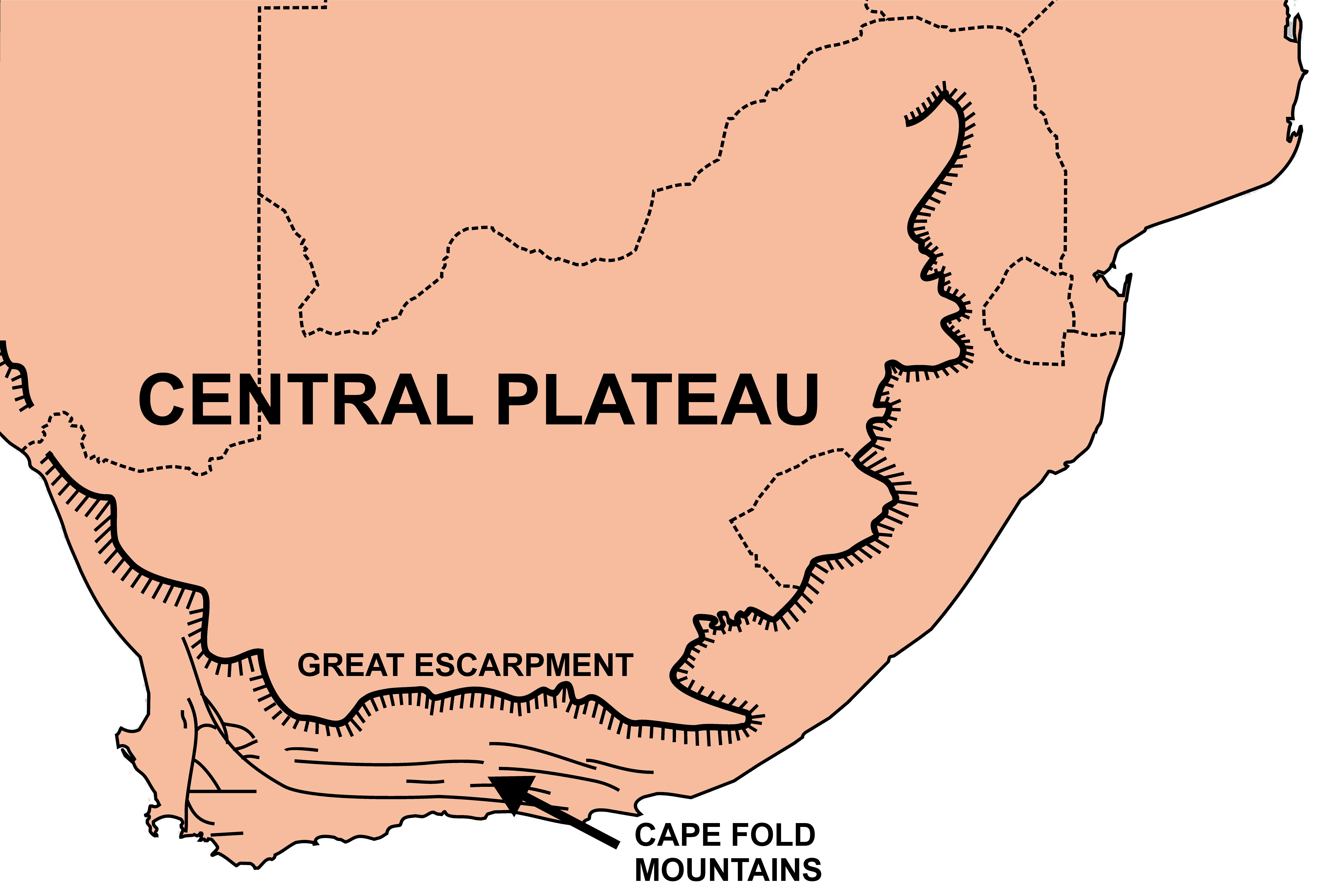 The Southern African Central Plateau surrounded by the Great Escarpment. The position of the Cape Fold Mountains in relationship to the Escarpment is indicated along the south coast.